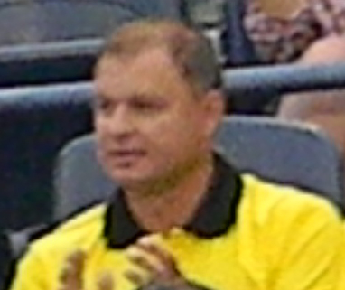 Marián Vajda, picture taken during 2010 Rogers Cup